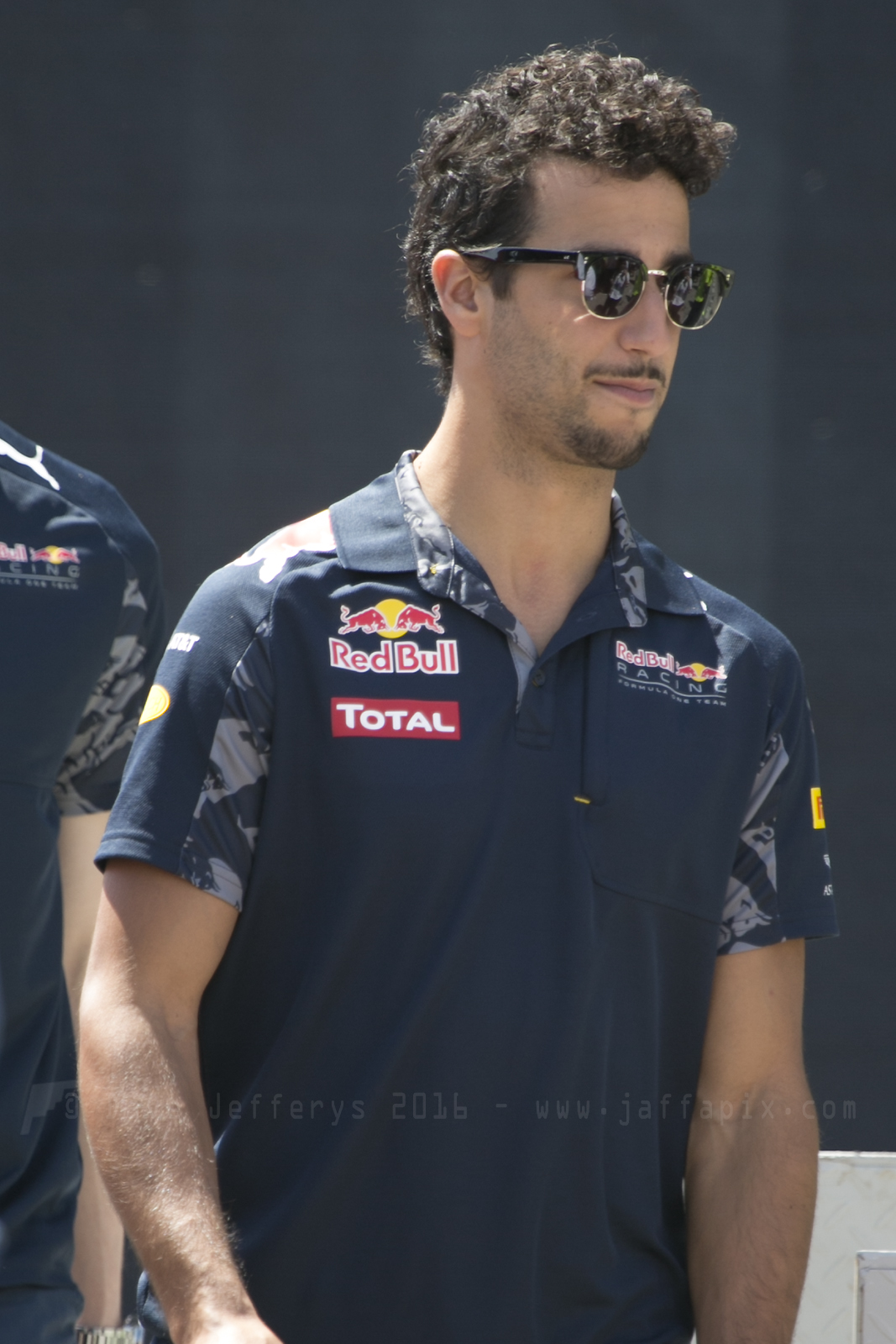 Daniel Ricciardo at the 2016 Bahrain Grand Prix